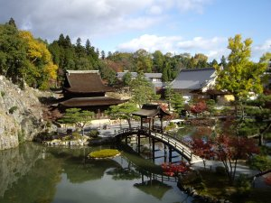 Place of scenic beauty Eihoji-garden